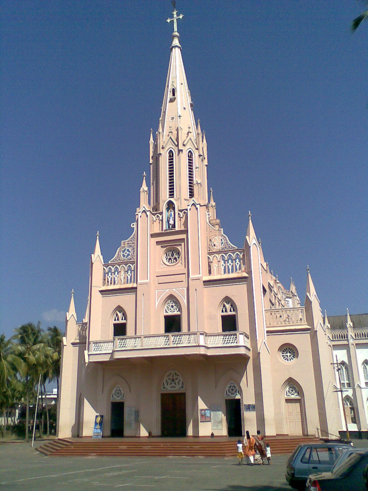 Clicks By irvin calicut .